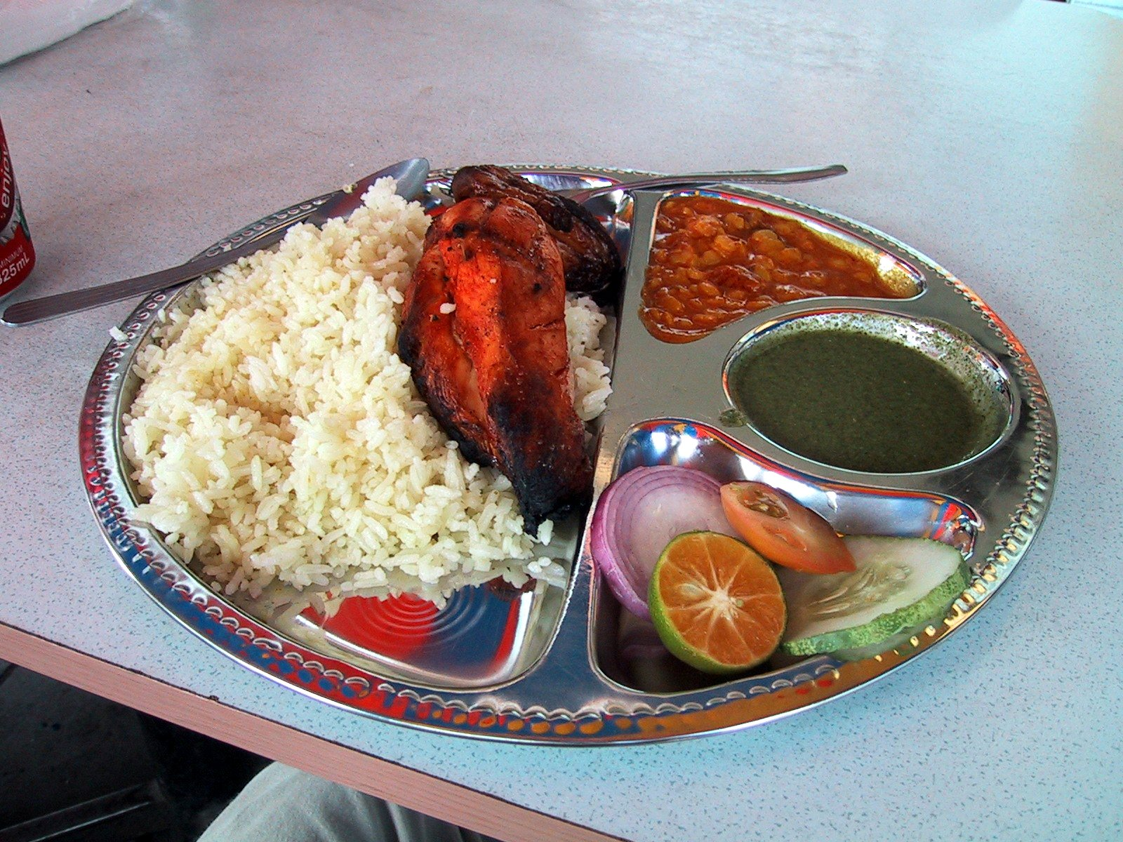 Tandoori Chicken with rice